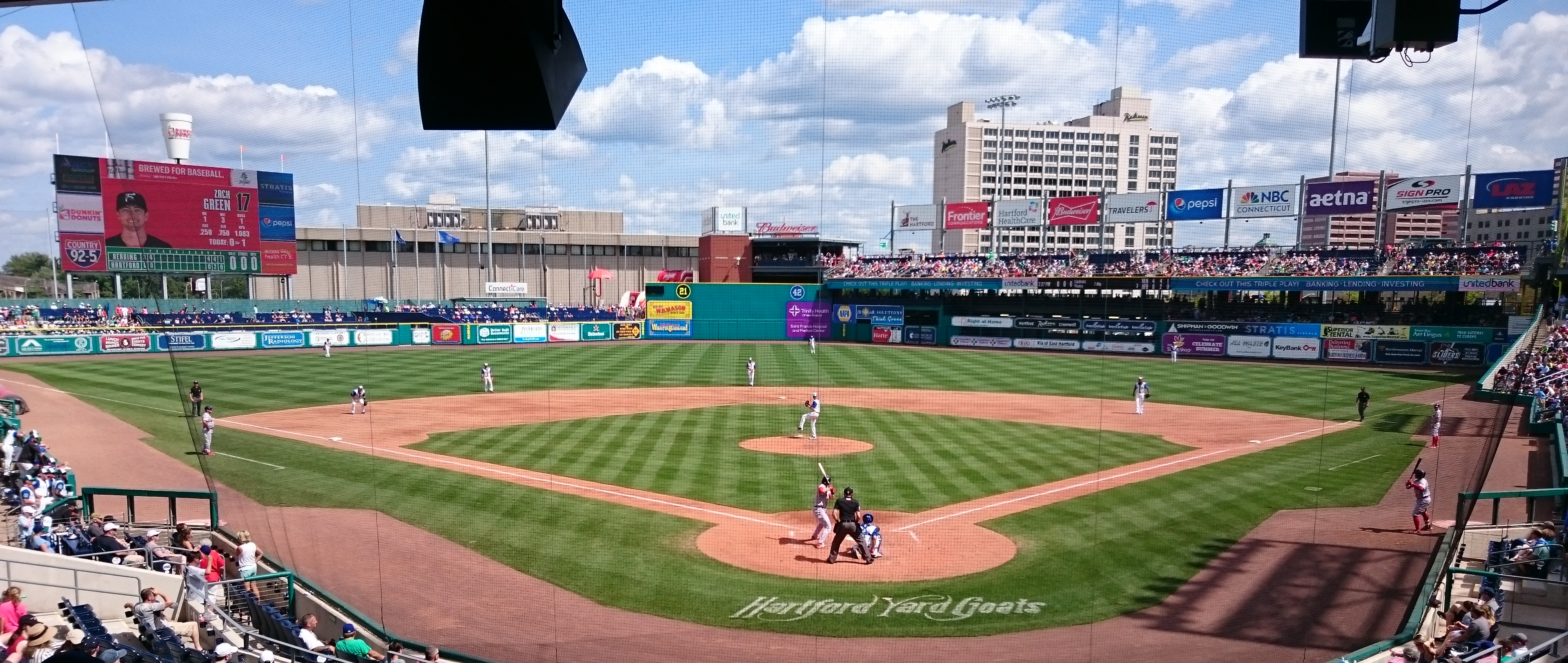 Reading Fightin Phils vs. Hartford Yard Goats on August 20, 2017 at Dunkin' Donuts Park, Hartford, Connecticut